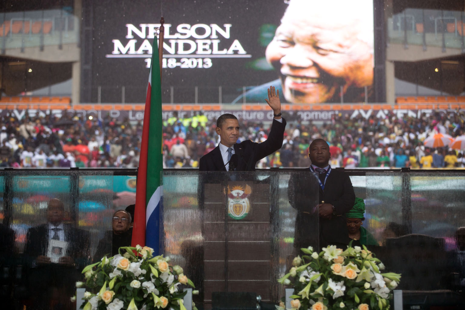 United States President Barack Obama speaks at the memorial service for Nelson Mandela in Soccer Stadium, Soweto, South Africa on 10 December 2013. Thamsanqa Jantjie stands to the right.